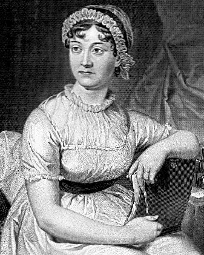 Portrait of Jane Austen